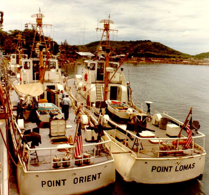 Commandant's inspection and where 82-footers tie up at Da Nang, Vietnam. (ADM E. J. Roland, USCG, and Assistant Sec. Reed)